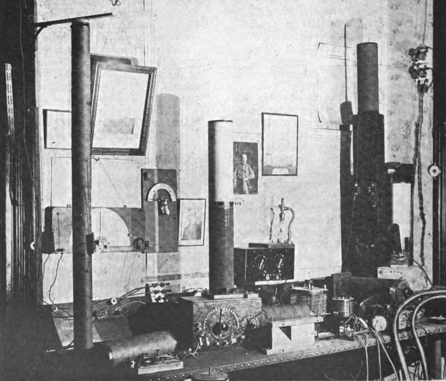 The experimental wireless telegraph station of amateur radio operator Charles E. Apgar in Westfield, New Jersey, in 1915.